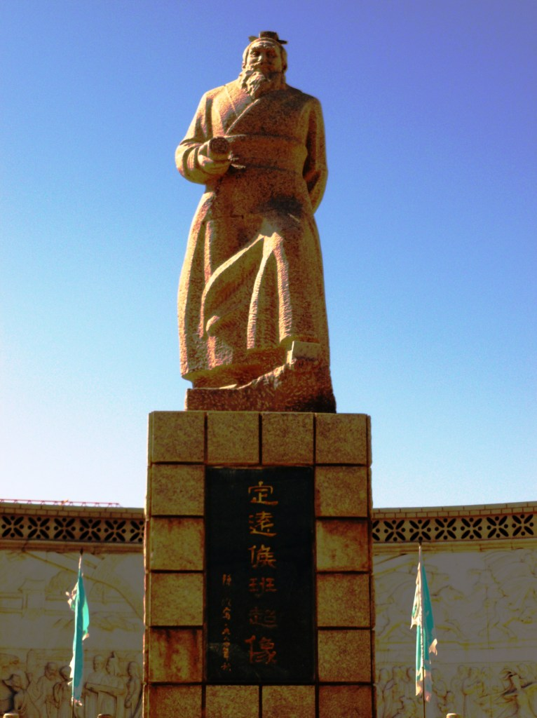 I took this photo myself on a recent trip to Kashgar in Xinjiang, China